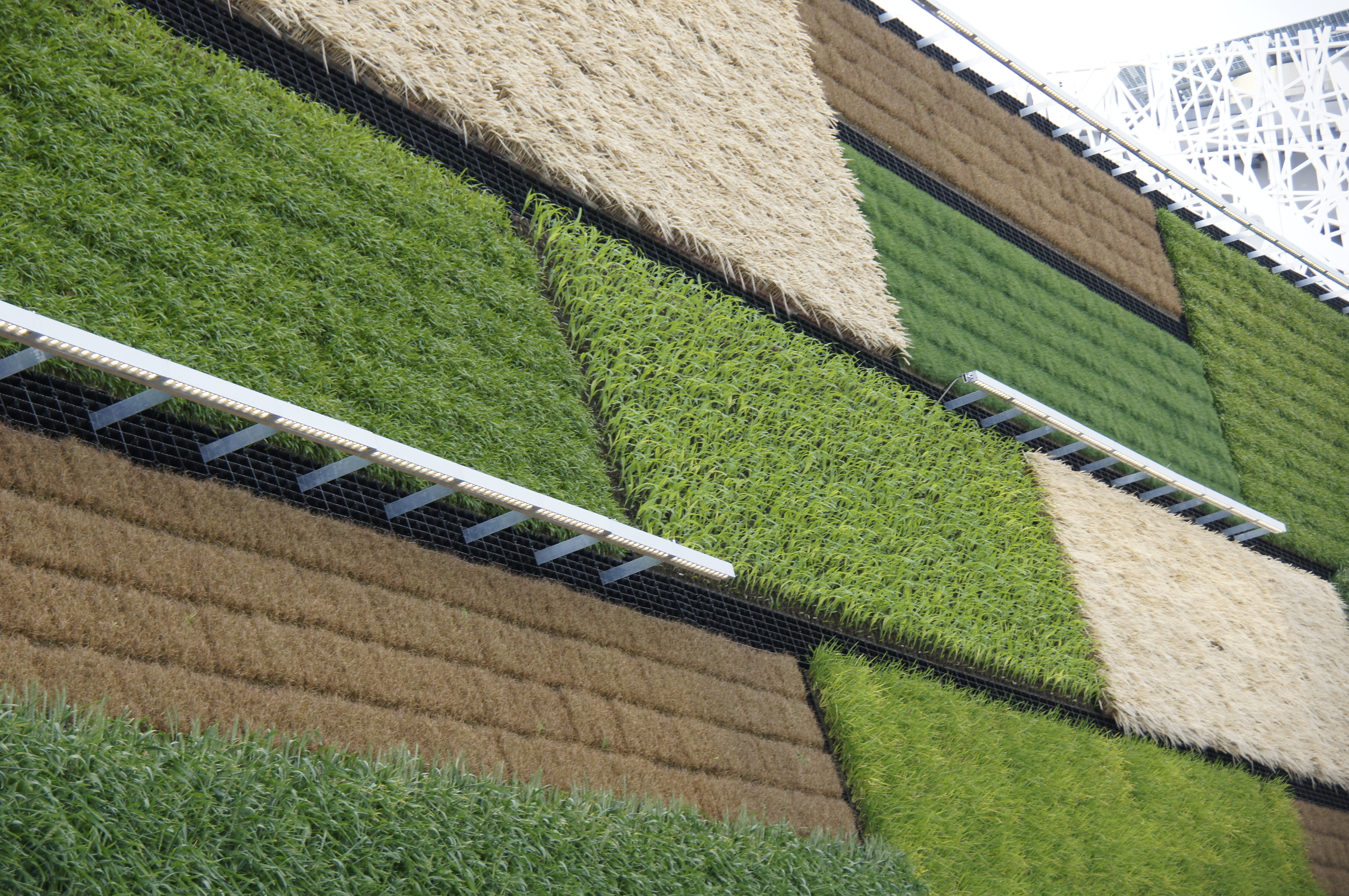 Israel Pavilion, Expo 2015, Milan, Italy.